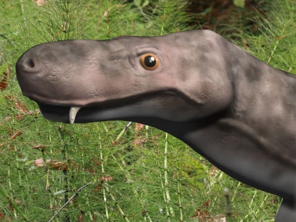 Aloposaurus gracilis, Late Permian of South Africa. Digital.